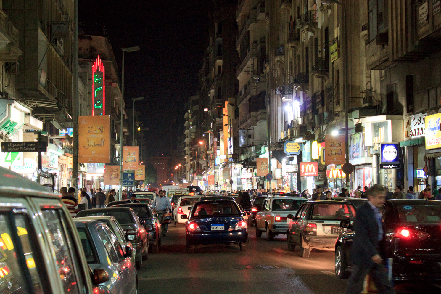 Cairo street at night